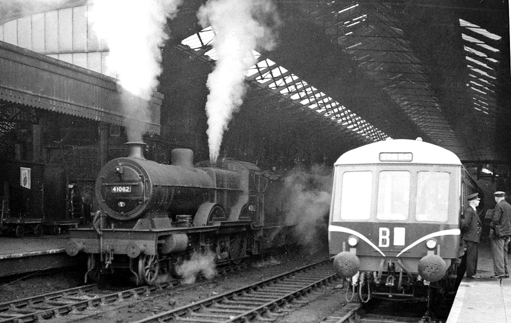 Bristol Temple Meads Station, original terminus with steam train and Diesel railcar, near to Bristol, Great Britain. View westward, towards the uffer-stops in the original Brunel terminus at Temple Meads. On the left at Platform 13 is LMS Compound 4P 4-4-0 No. 41062 on the 10.52 stopping train for Gloucester; on the right at Platform 15 is a Diesel railcar set on the service to Severn Beach.